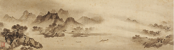 Fishing village in the evening glow (紙本墨画漁村夕照図, shihon bokuga gyoson sekishōzu). Hanging scroll. Ink on paper. 33.0cm x 112.6cm. The scene depicted is one of the Eight Selected Scenes of Xiaoxiang. The scroll has been designated as National Treasure of Japan in the category paintings.